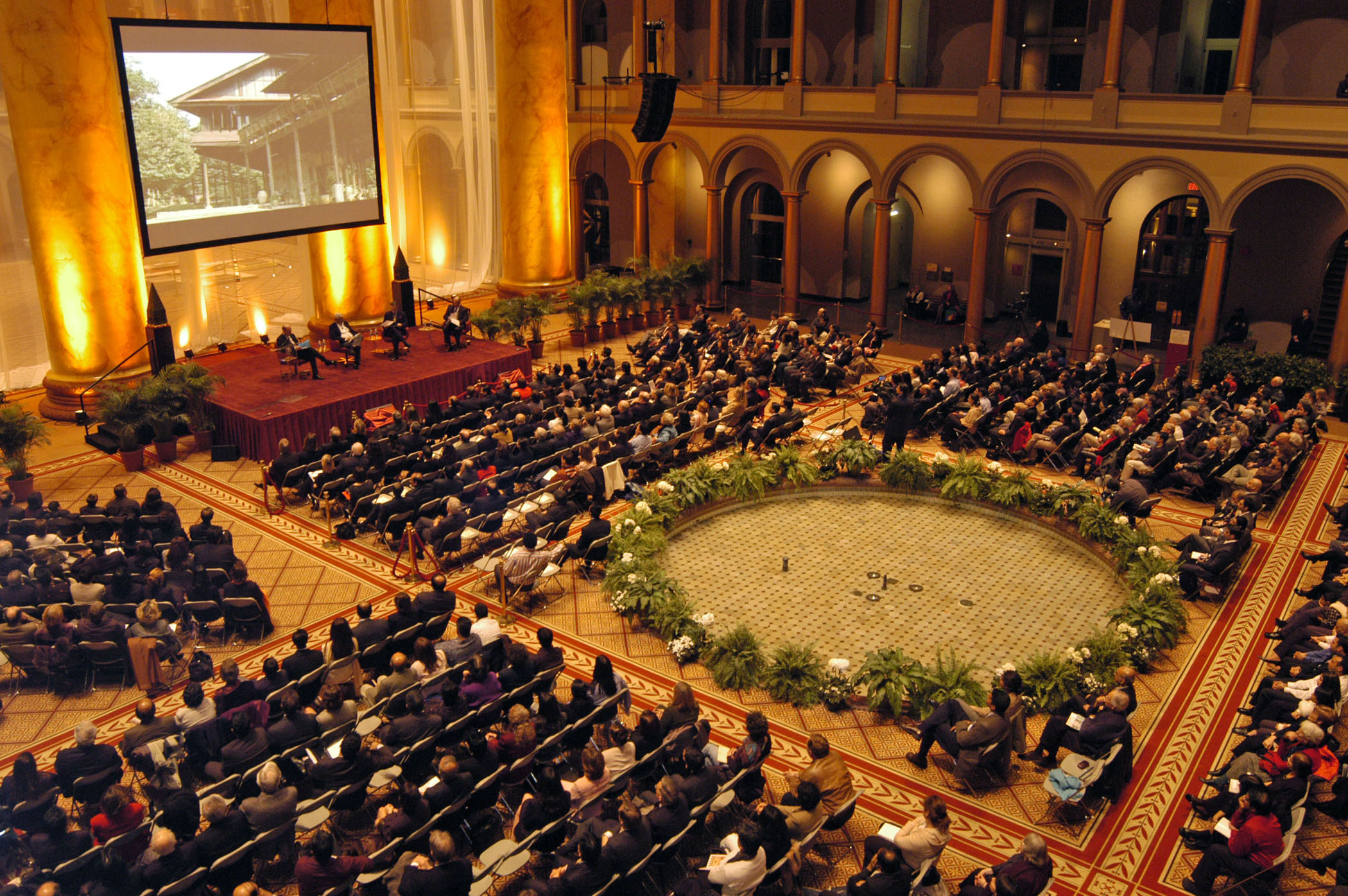 A 2005 symposium held in honor of the awarding of the National Building Museum's Vincent Scully Prize to His Highness the Aga Khan.